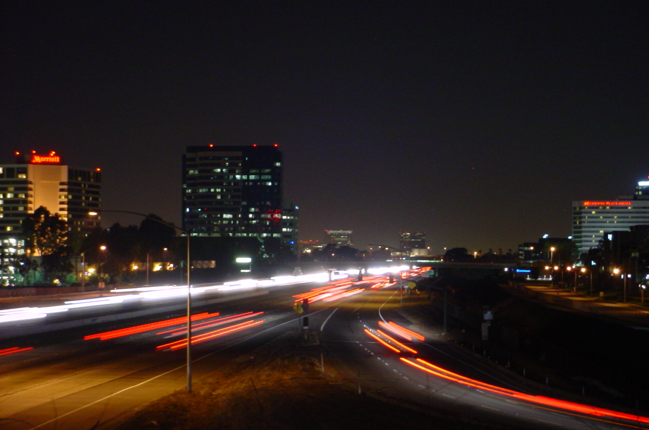 Freeway onramp to the 405 North at Jamboree Road at night.